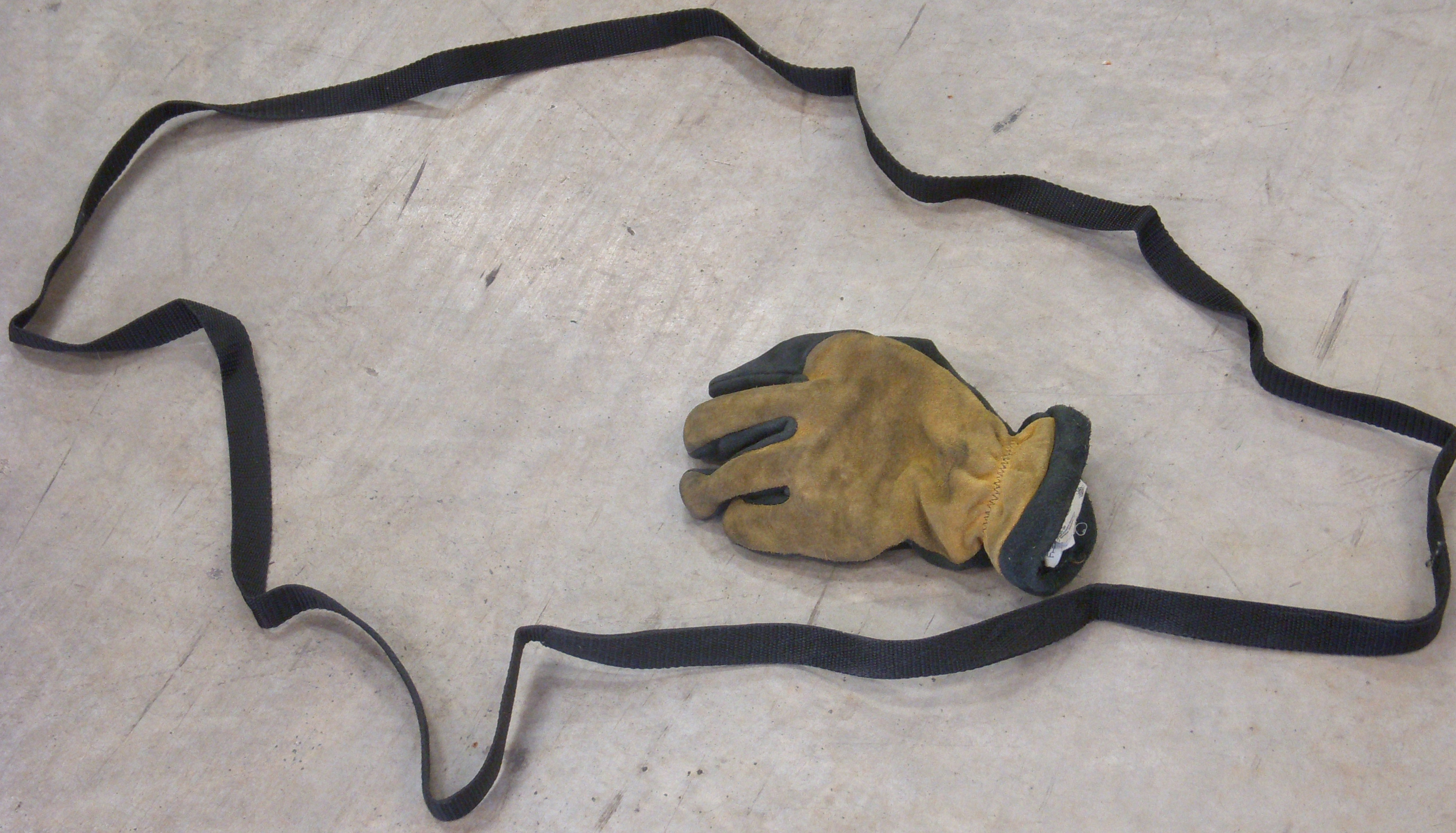 View of nylon hose strap/rope-hose tool, on floor. Structural firefighting glove included for perspective.